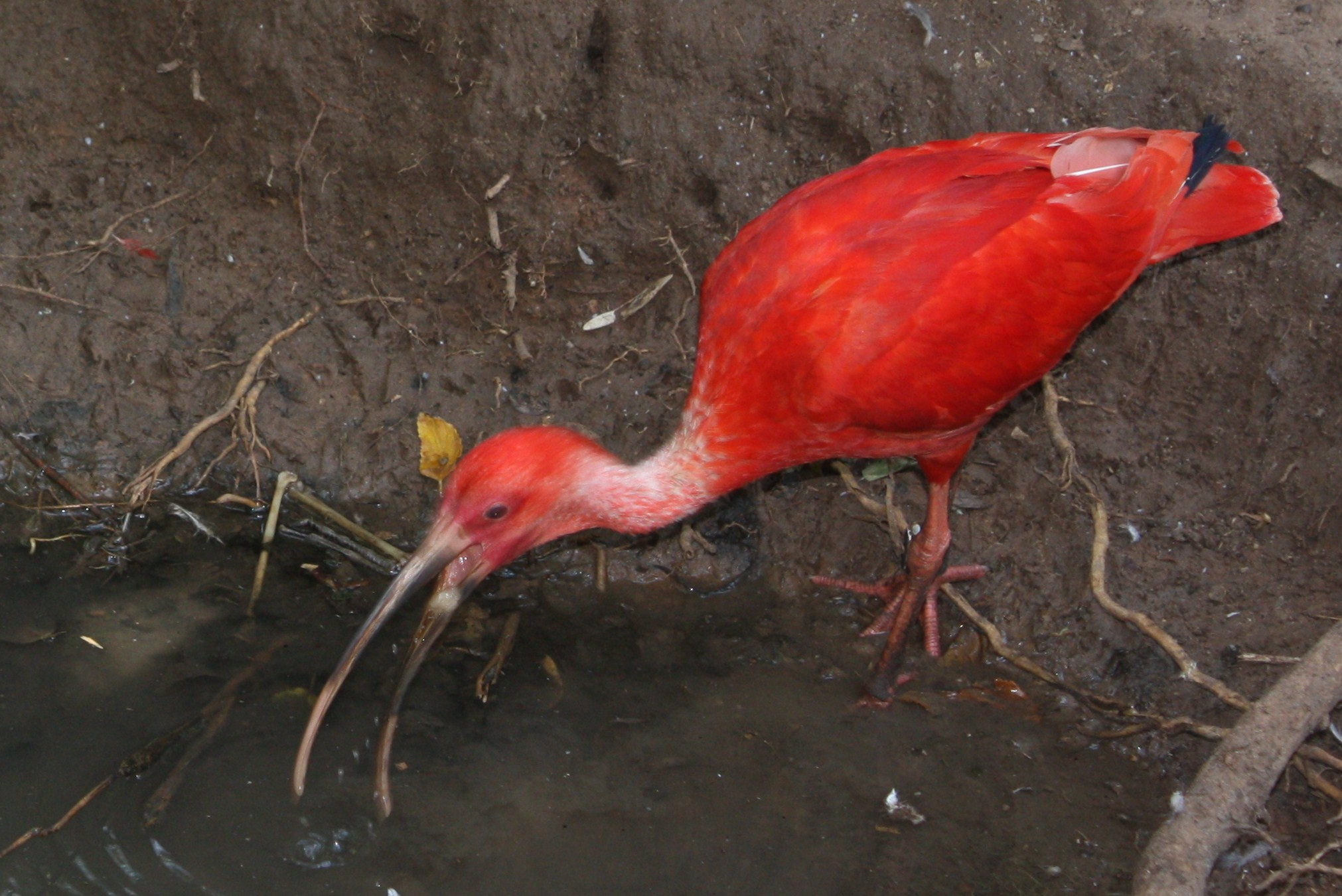 "Maglan Shani" (Scarlet Ibis) in the Safari, Ramat-Gan, Israel